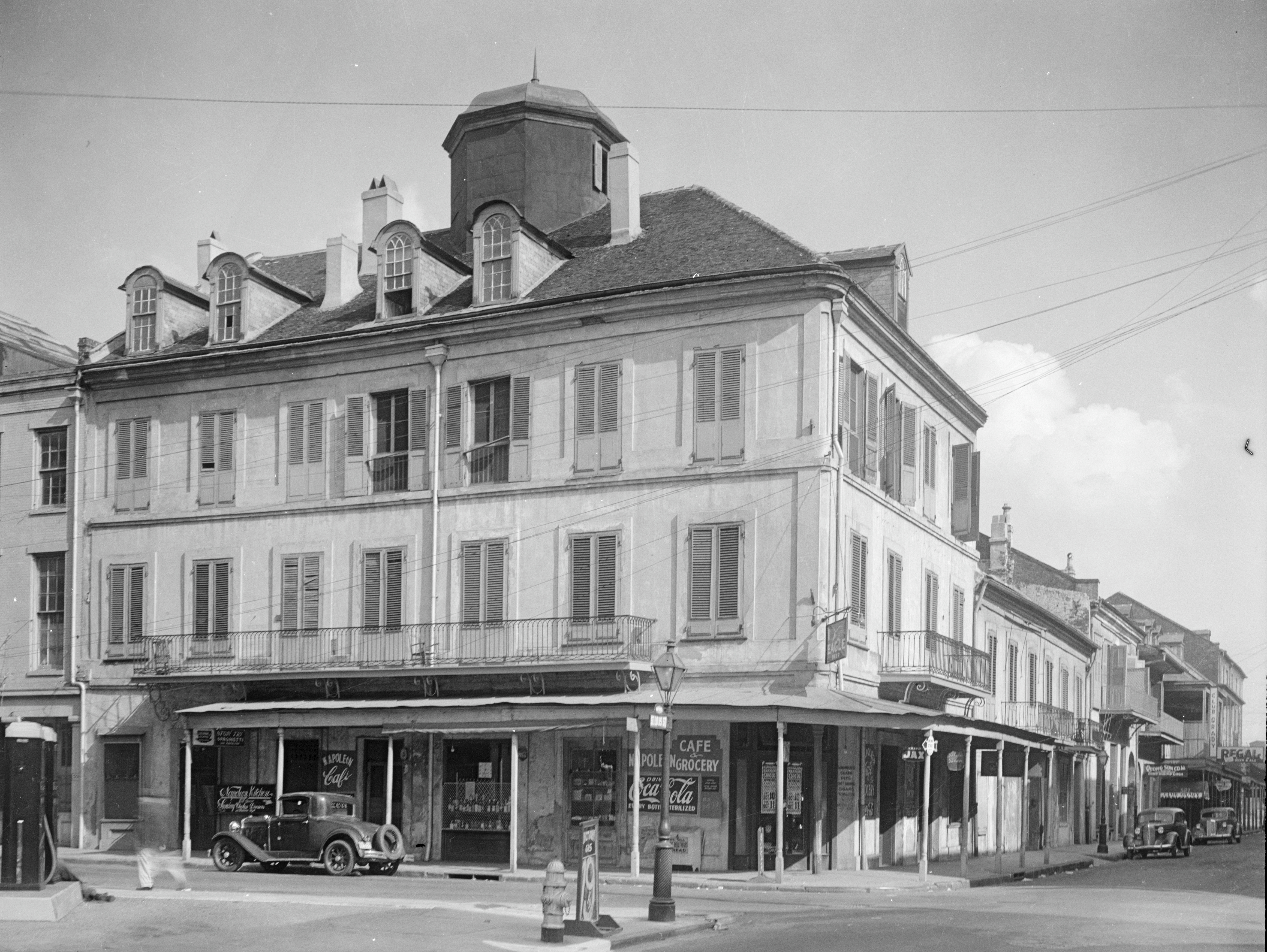 Girod House, ("Napoleon House") 500-506 Chartres Street, at St. Louis Street, New Orleans, Orleans Parish, LA. View of Chartres Street side.